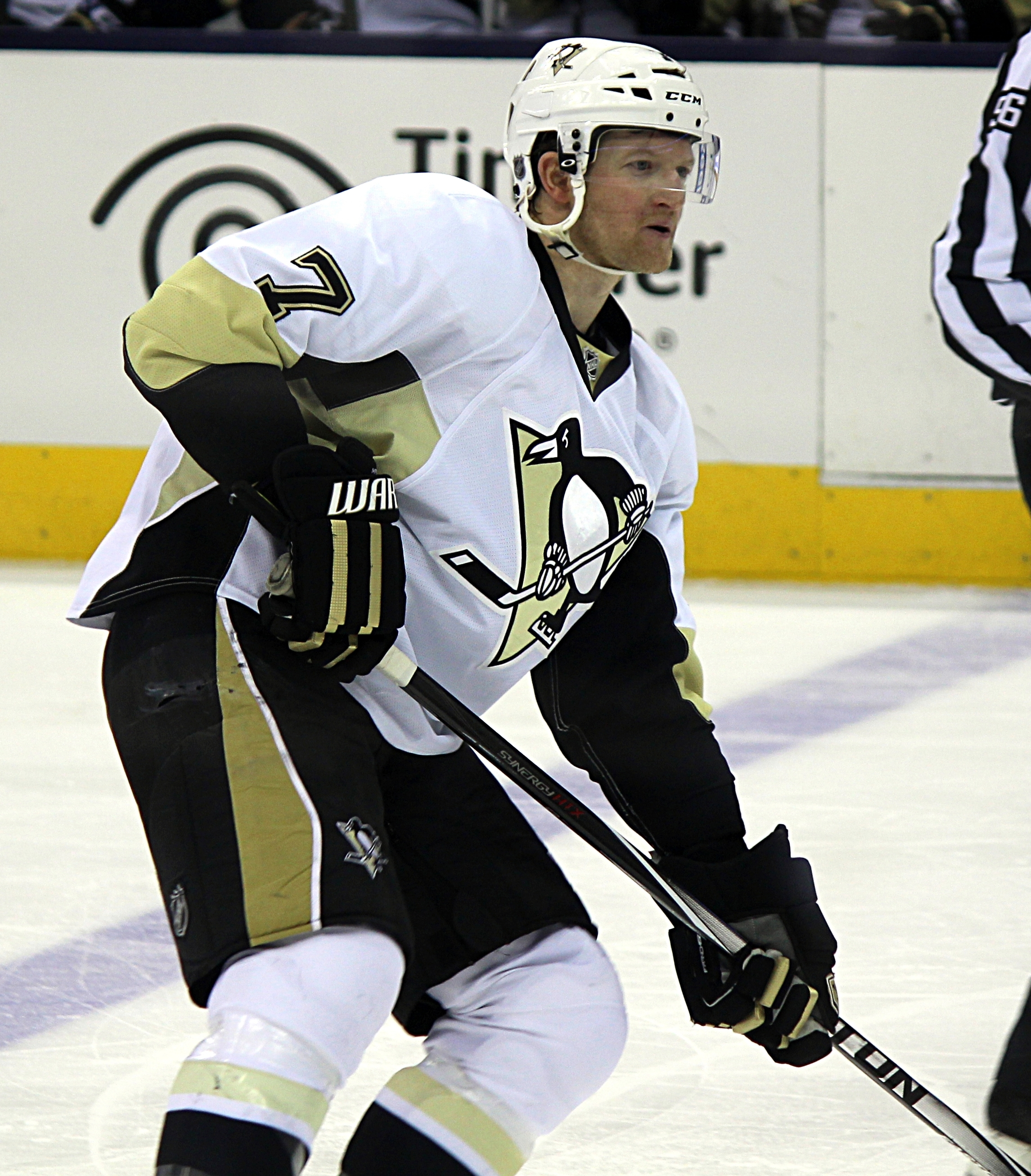 Pittsburgh Penguins defenseman Paul Martin during a game against the Columbus Blue Jackets, December 13, 2014, at Nationwide Arena in Columbus, OH.